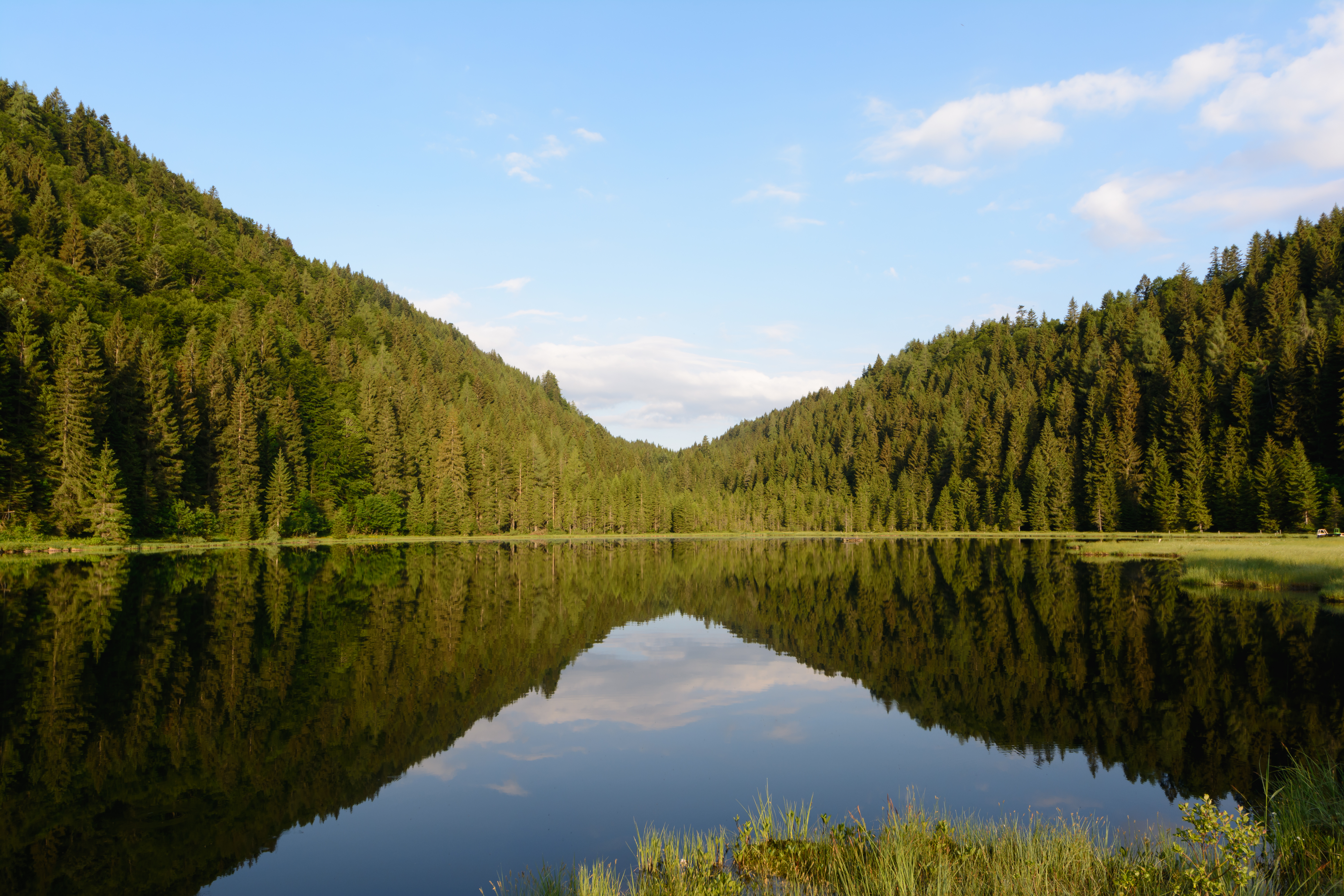 Lake Spechtensee near Wörschachwald, Styria, Austria - viewing westward